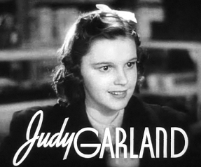 Cropped screenshot of Judy Garland from the trailer for the film Love Finds Andy Hardy.